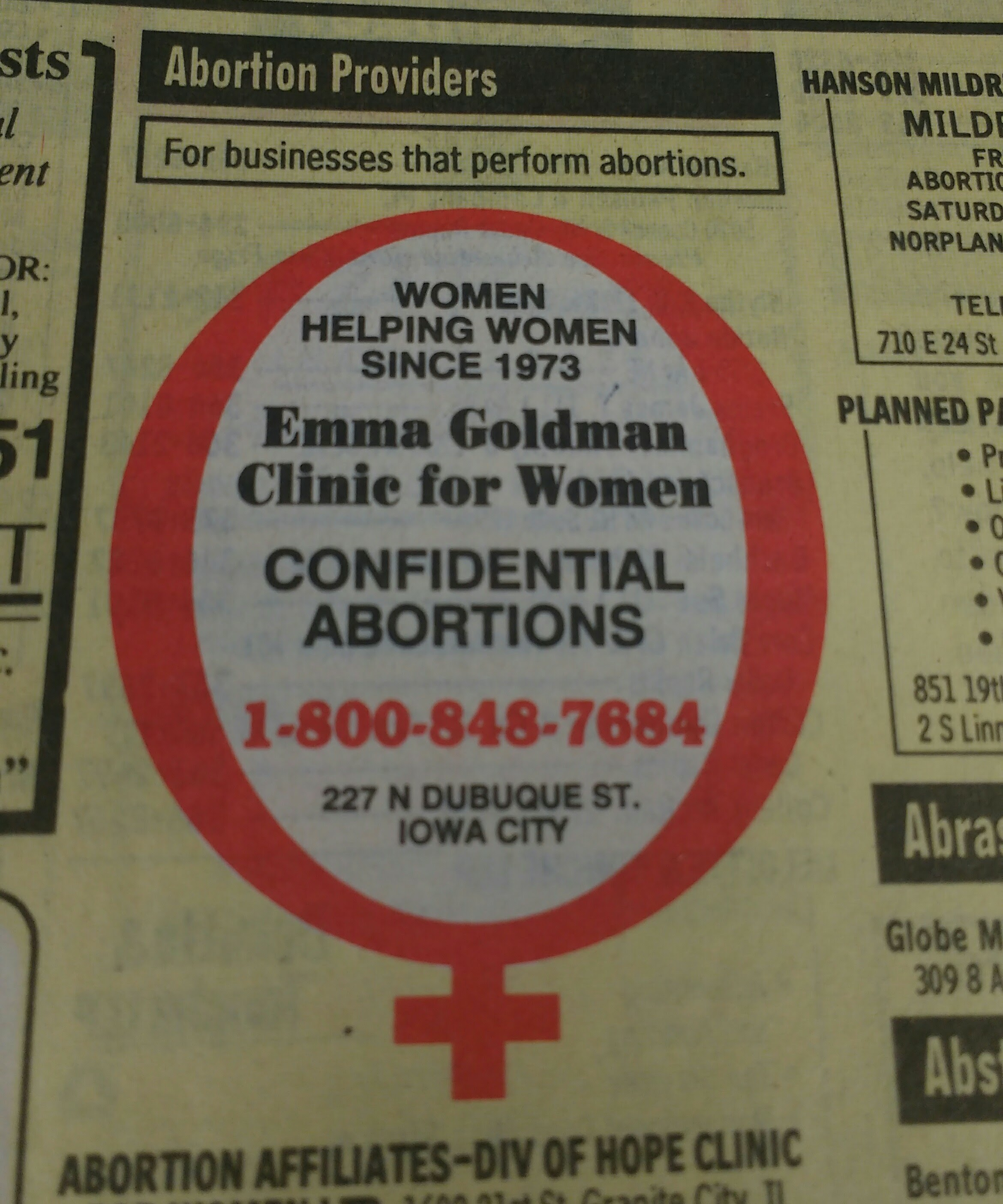 Emma Goldman clinic Iowa City IA women's health clinic